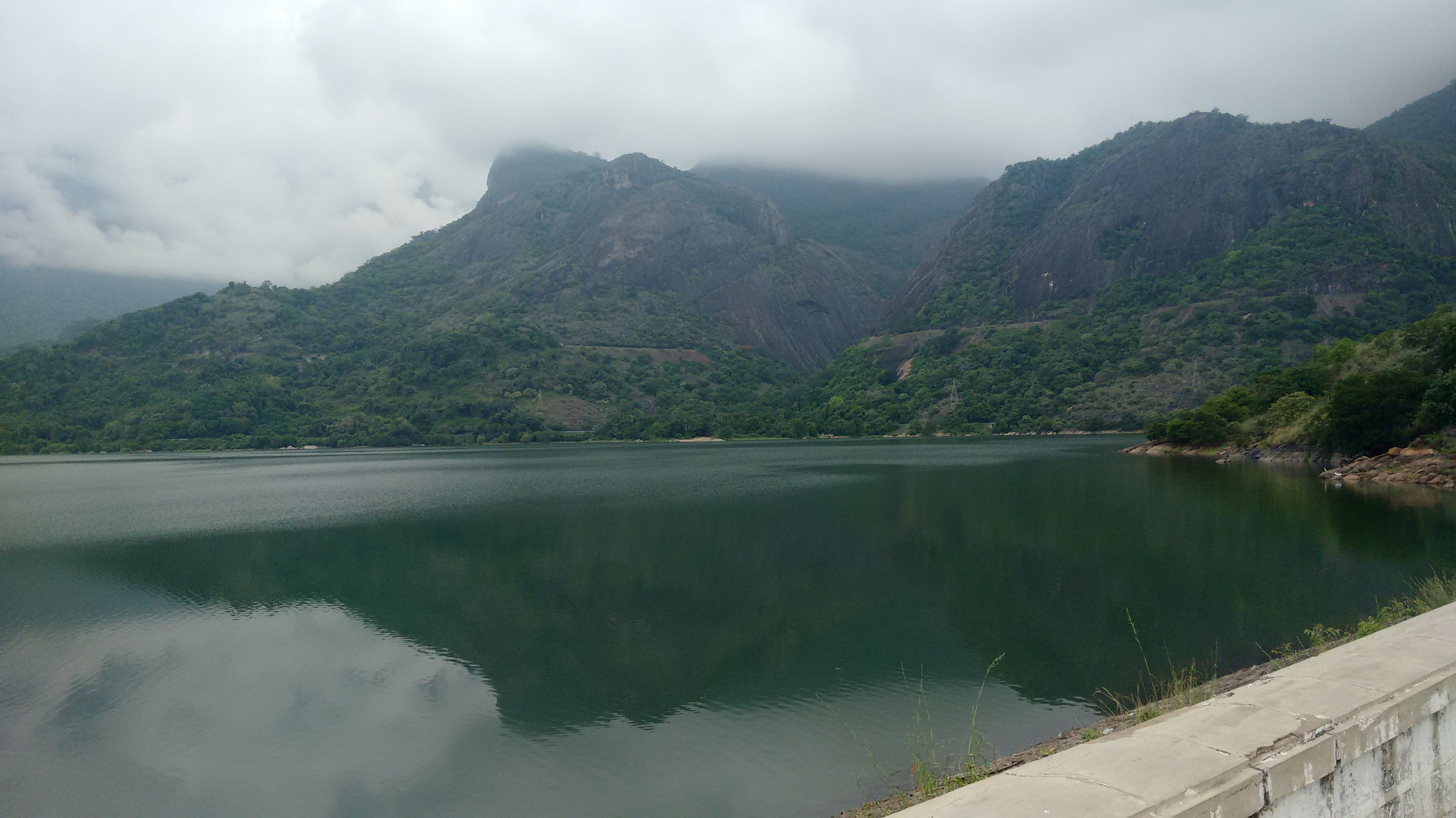 The majestic beauty of vaalparai can be seen from Azhiyar dam situated in pollachi,Tamil Nadu at the foot of Anamalai hills..the cloudy fogs will always mesmerize anyone